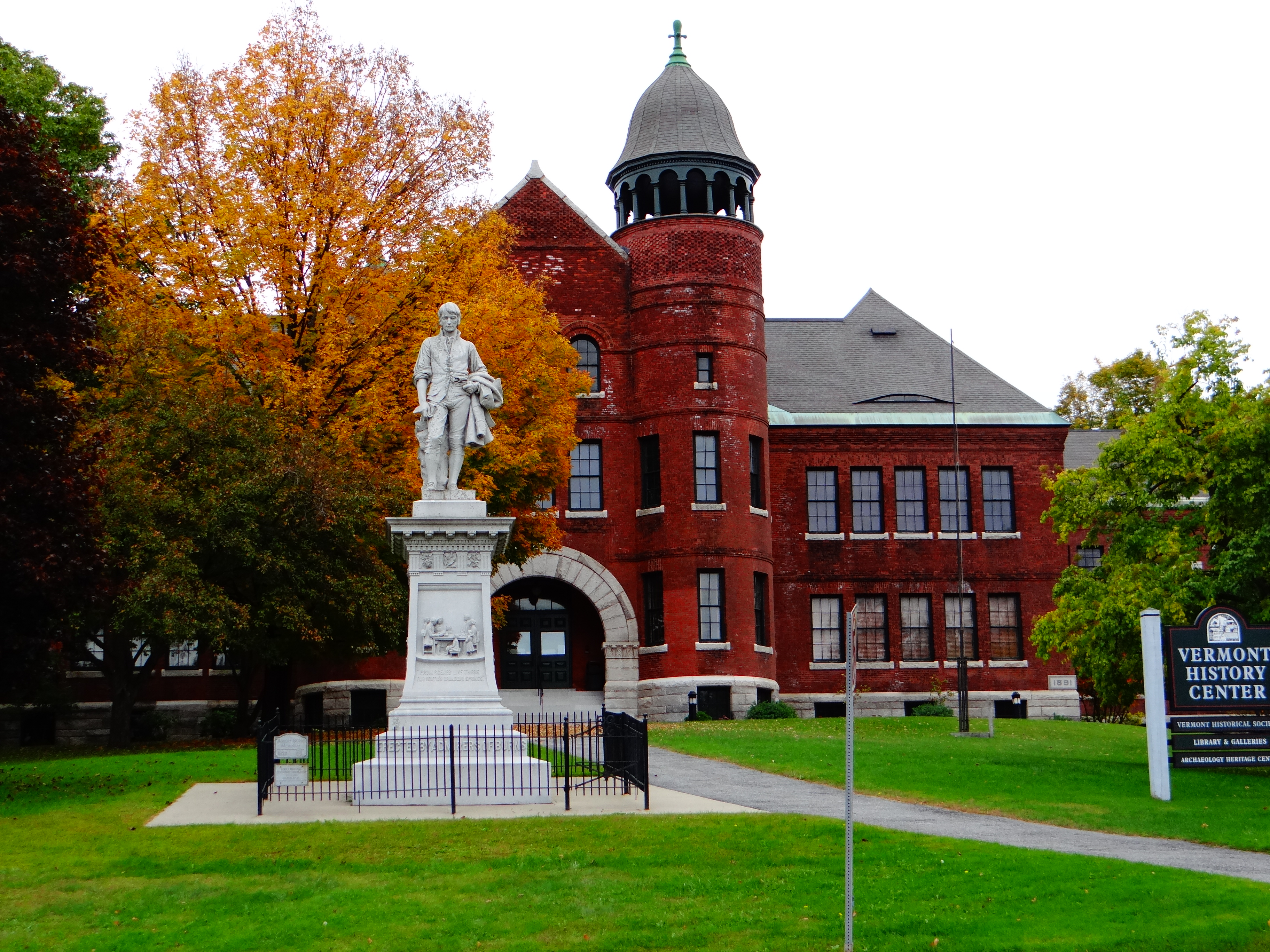 Old Spaulding Graded School with Robert Burns statue, poet located in Barre, Vt